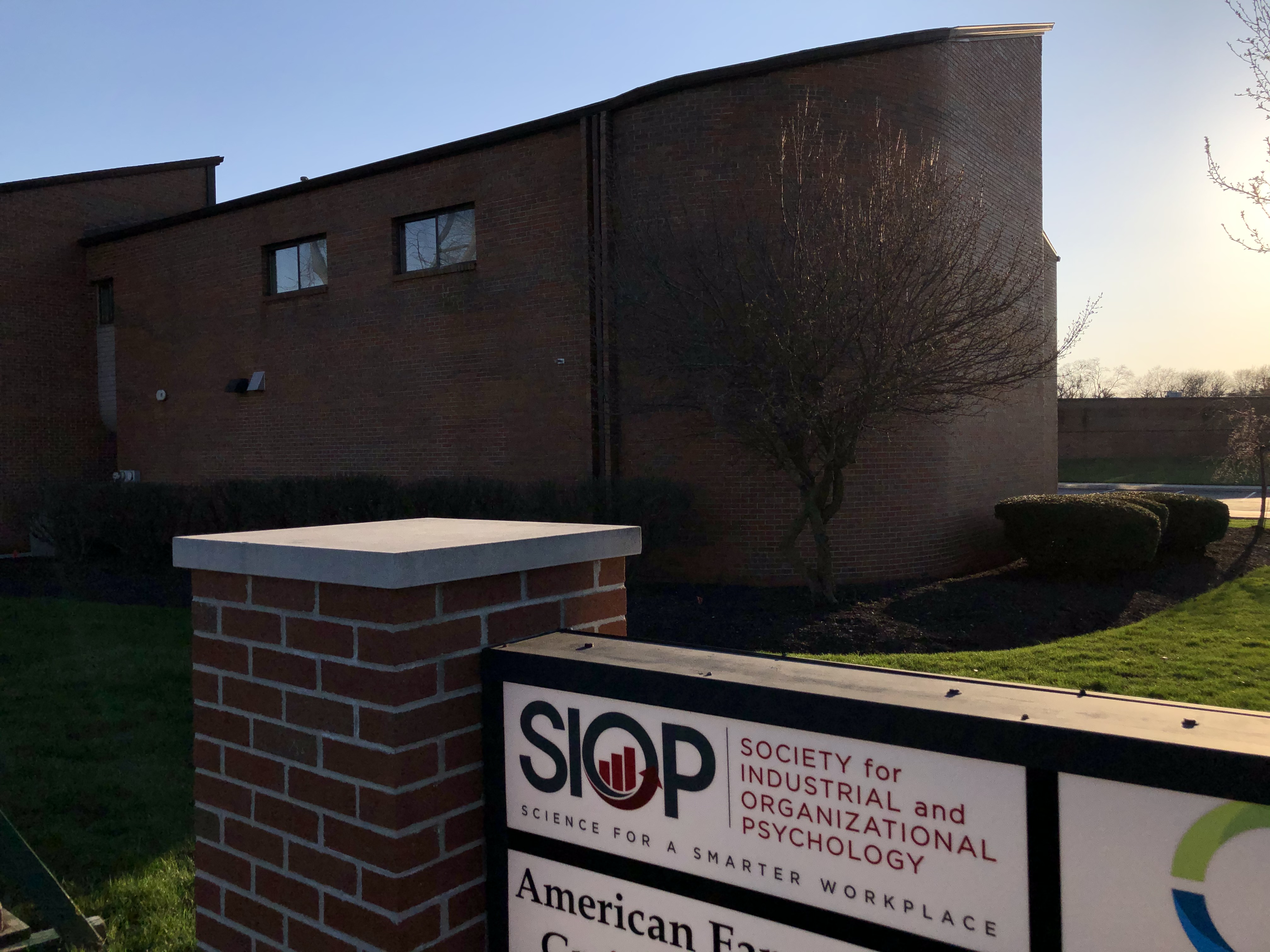 A better shot of the Society for Industrial and Organizational Psychology Office.